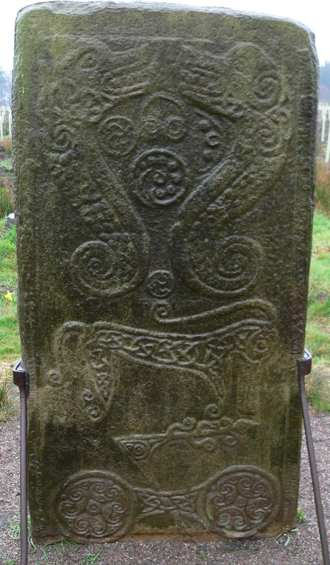 Rodney's Stone, Brodie, Moray, Scotland